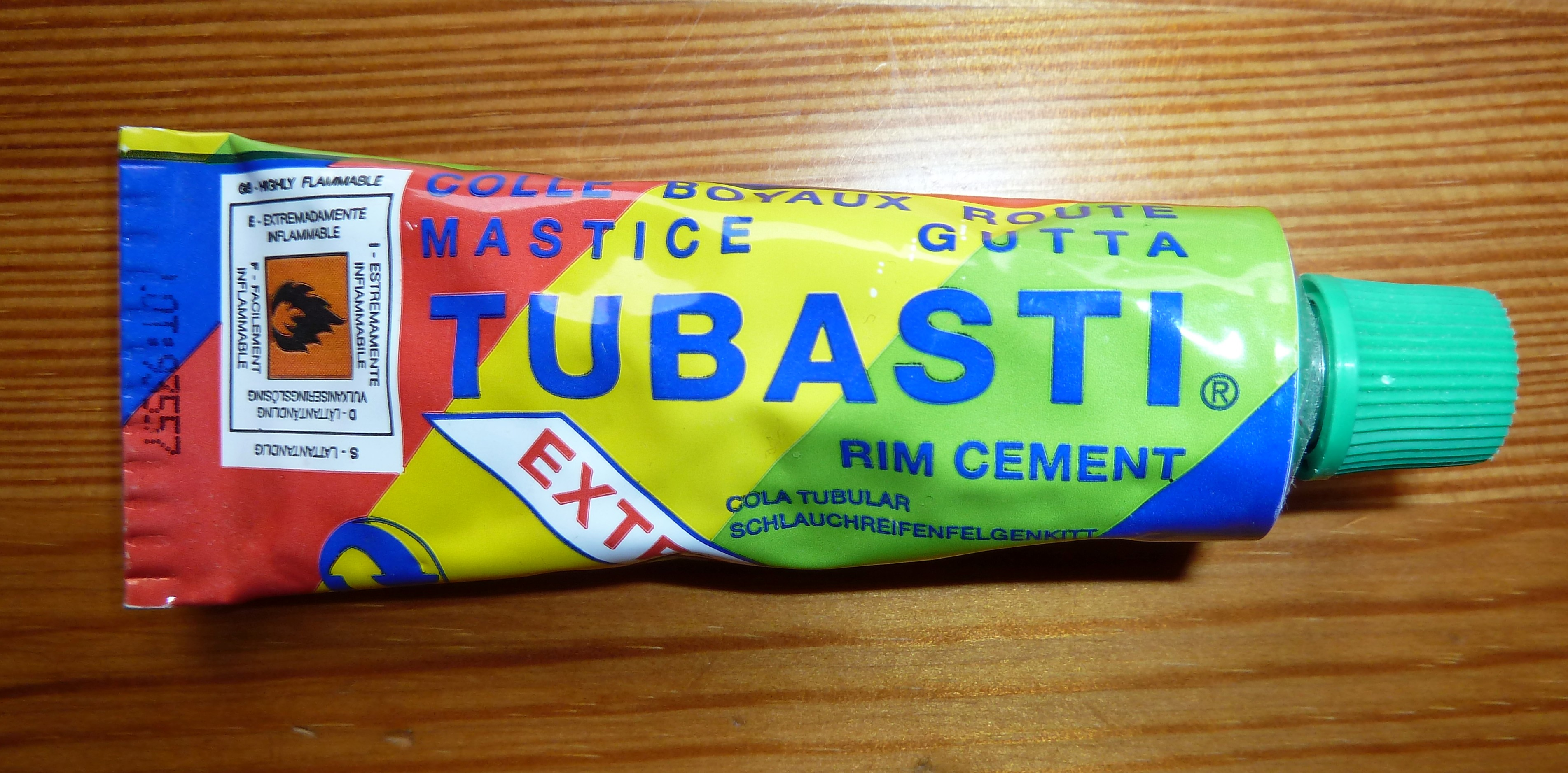 Tubasti rim cement for cycling tubulars